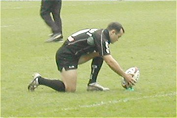 Thomas Castaignède, French former rugby union player